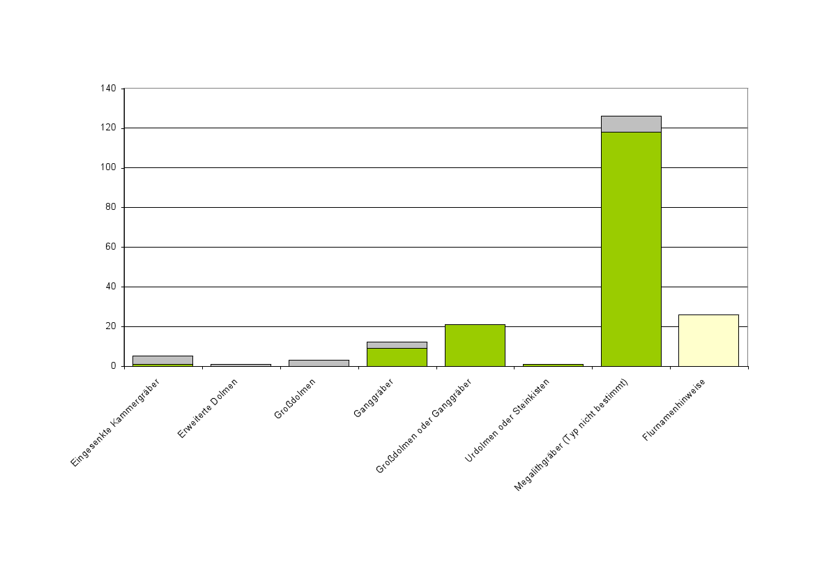 Types of megalithic tombs of the Aller-Ohre-Group